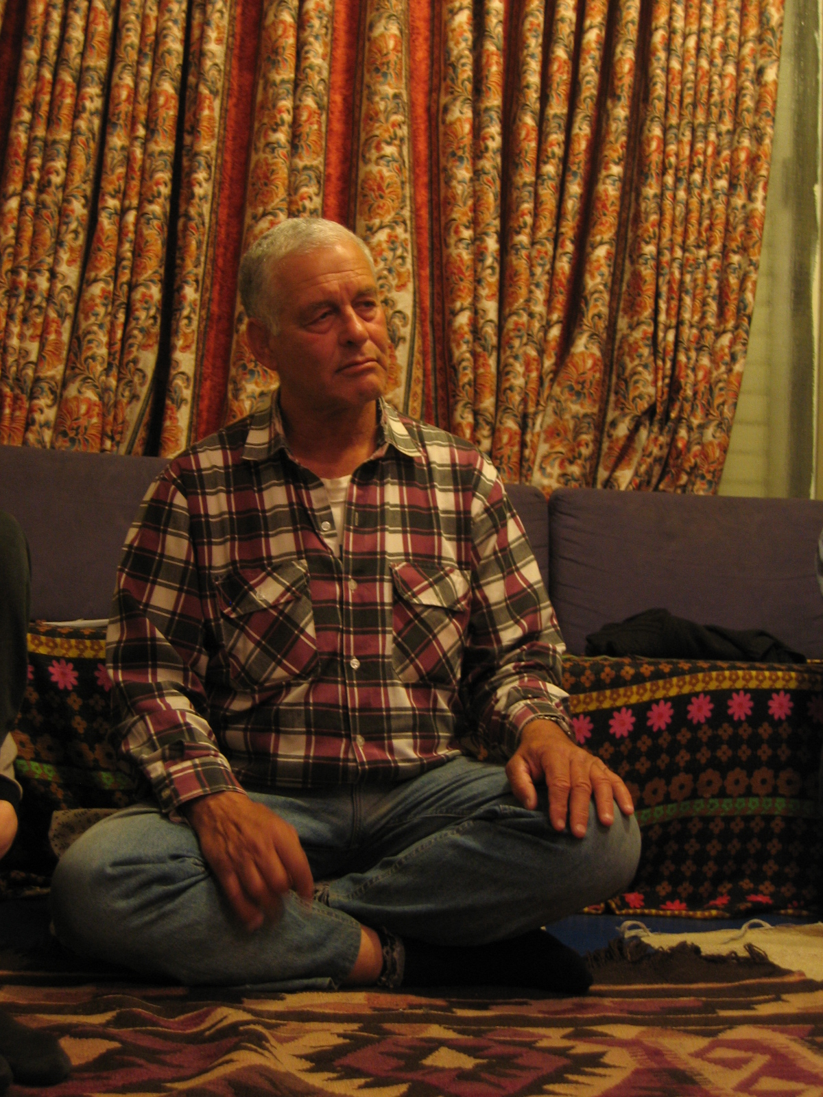 Danny Waxman